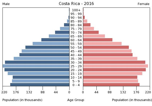 The population pyramid of Costa Rica illustrates the age and sex structure of population and may provide insights about political and social stability, as well as economic development. The population is distributed along the horizontal axis, with males shown on the left and females on the right. The male and female populations are broken down into 5-year age groups represented as horizontal bars along the vertical axis, with the youngest age groups at the bottom and the oldest at the top. The shape of the population pyramid gradually evolves over time based on fertility, mortality, and international migration trends.